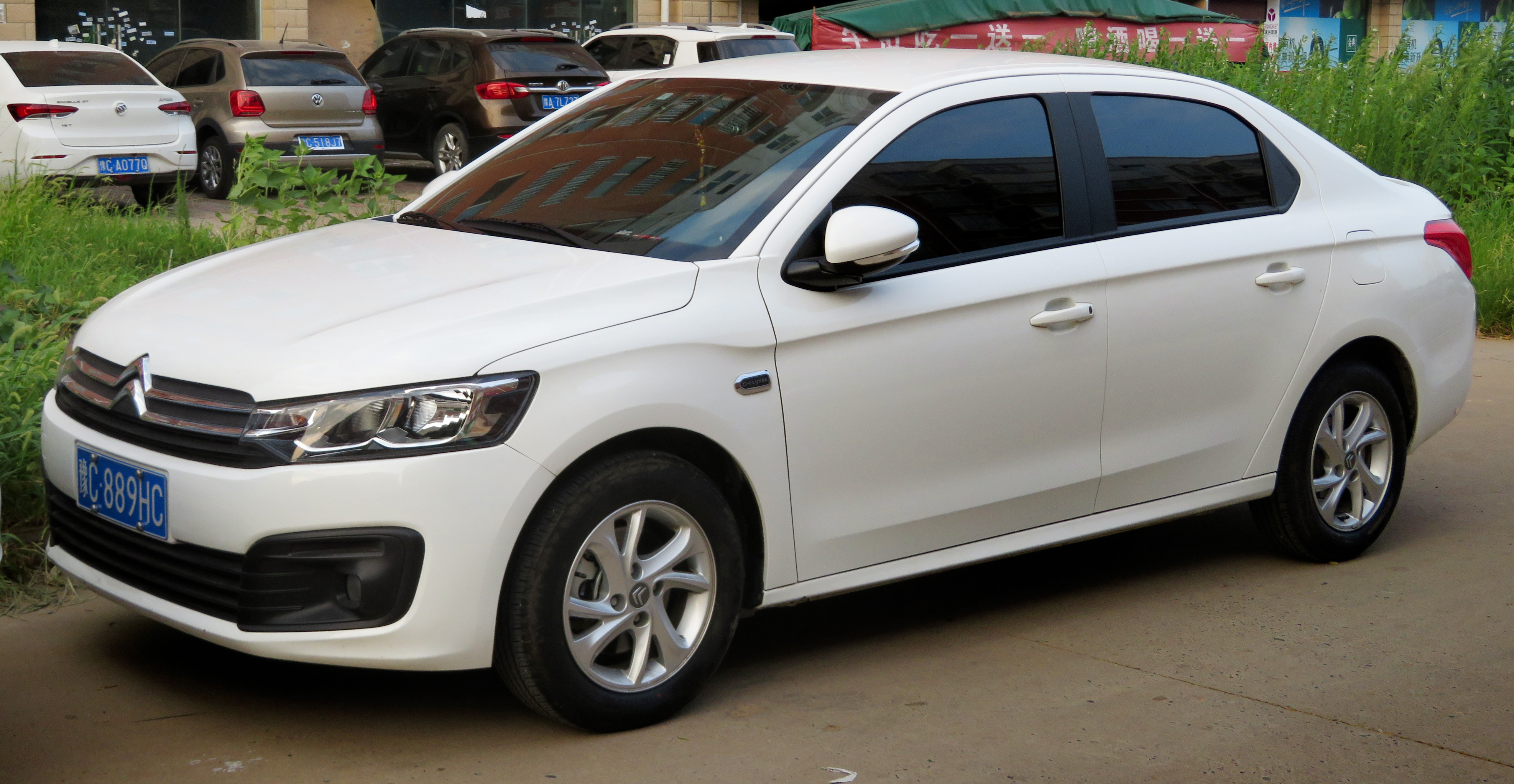 A 2018 Dongfeng-Citroën C-Elysée facelift photographed in Xigong District, Luoyang, Henan province, China